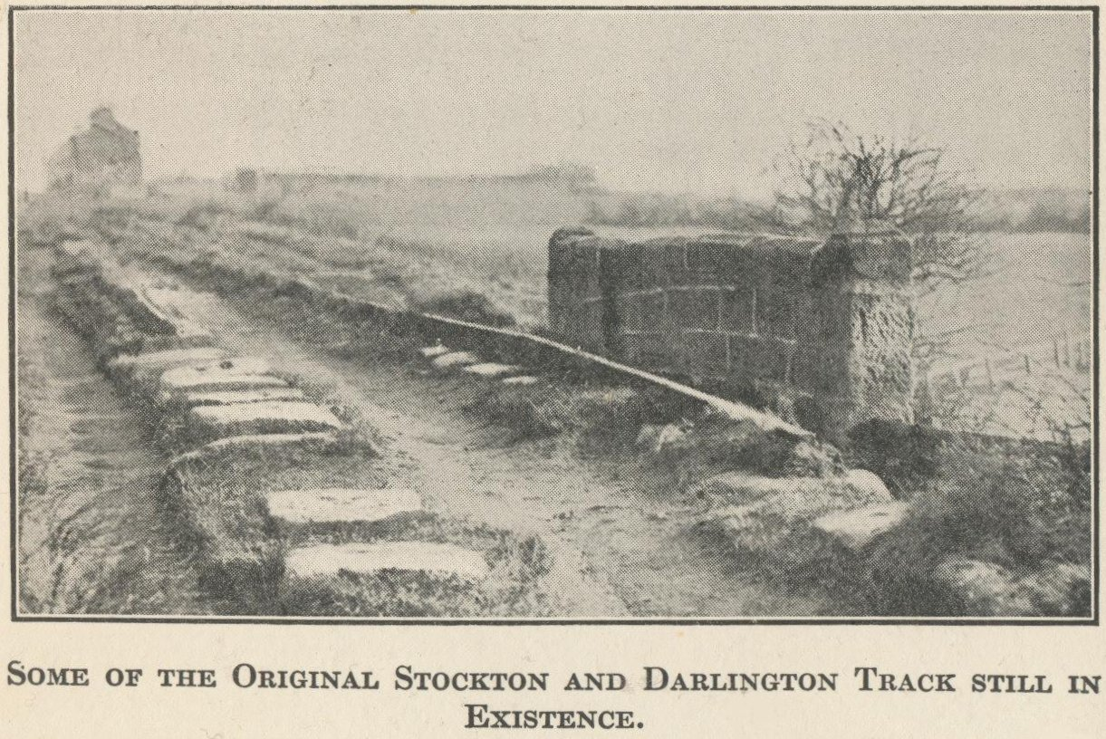 Some of the original (1825) Stockton and Darlington track still in existence - the photo dates from about 1925